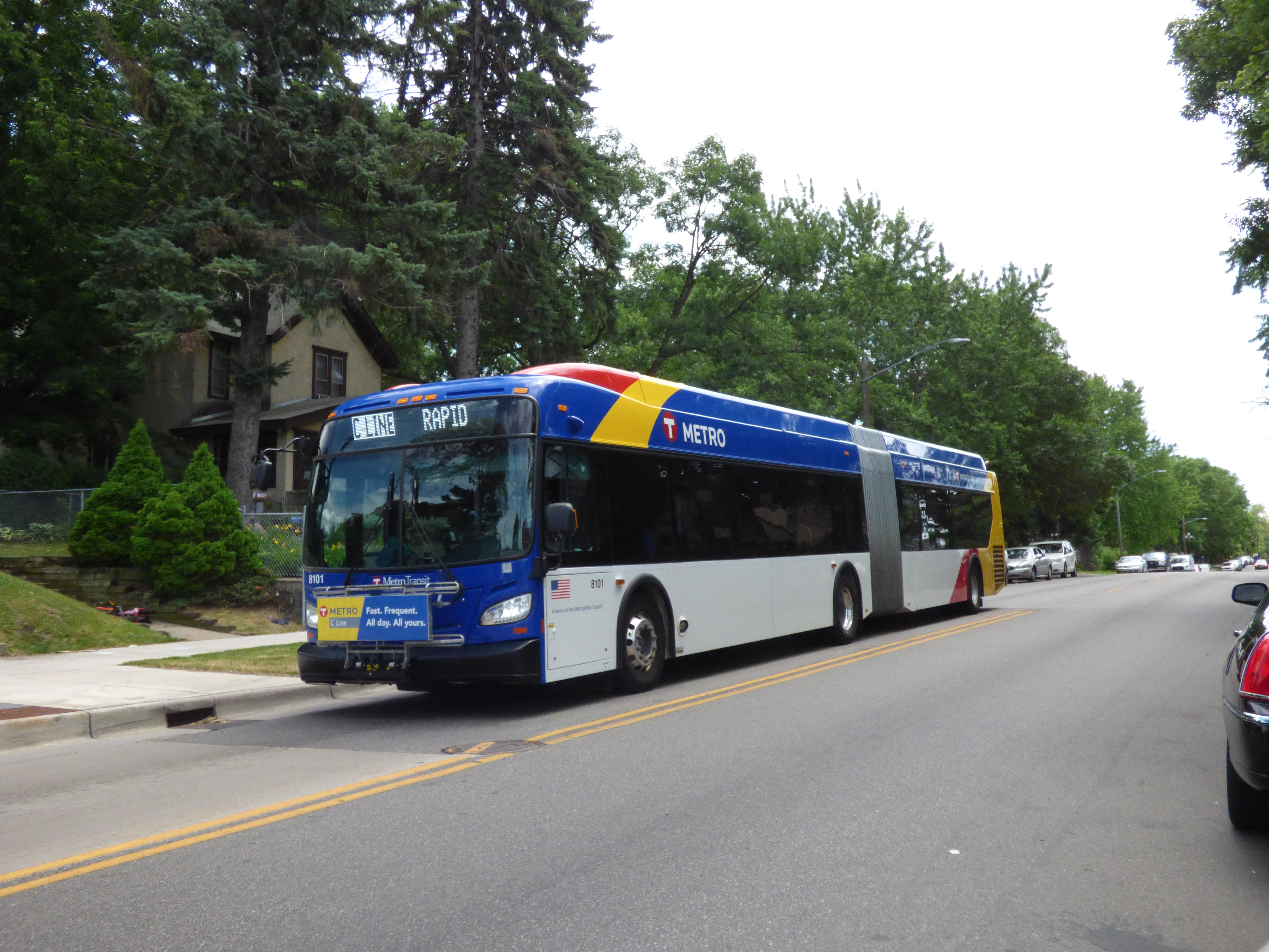 A northbound C Line diesel bus on Penn Avenue approaching Penn & Dowling Station on June 21, 2020.